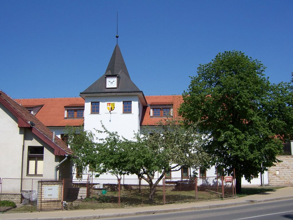 Prague-Dolní Počernice, Stará obec, municipal part office.